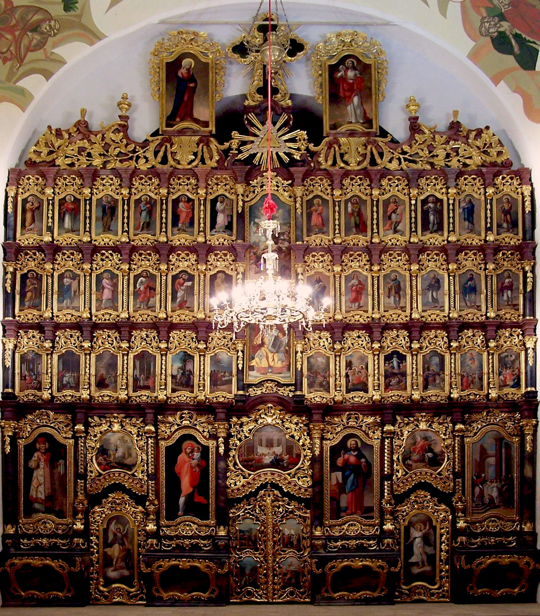 The iconostasis of the Greek Catholic Cathedral of Hajdúdorog, Hungary. The iconostasis has got 54 icons and it is around 200 years old as the icons were painted around 1810. The last restoration ended in the summer of 2004.